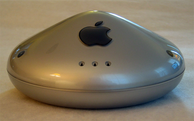 Photograph of Apple Graphite AirPort Base Station front